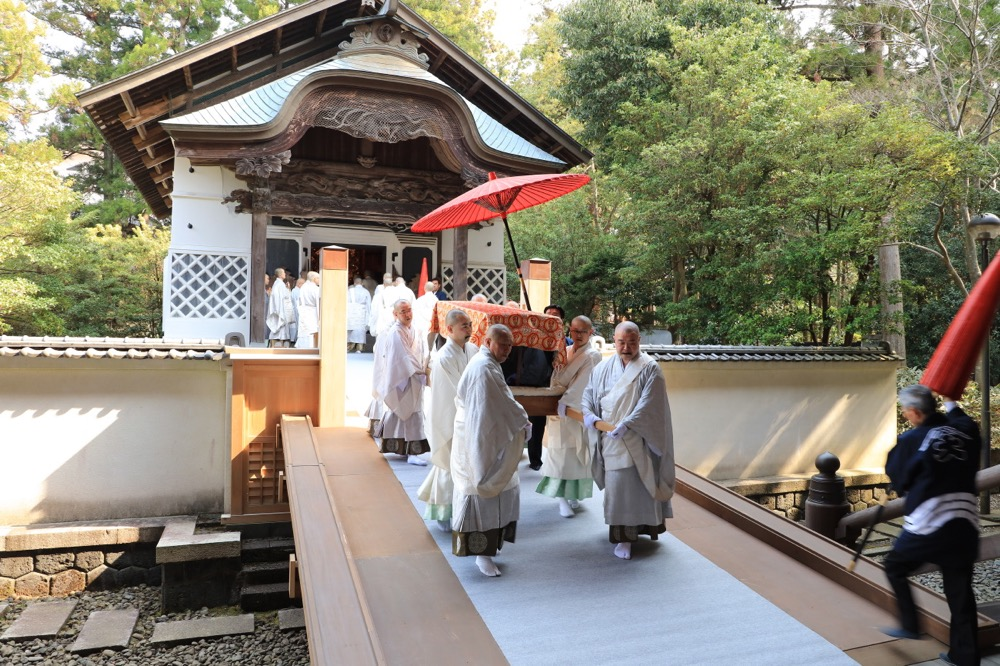 The Honmon Kaidan Gohonzon being carried from the Gohozo